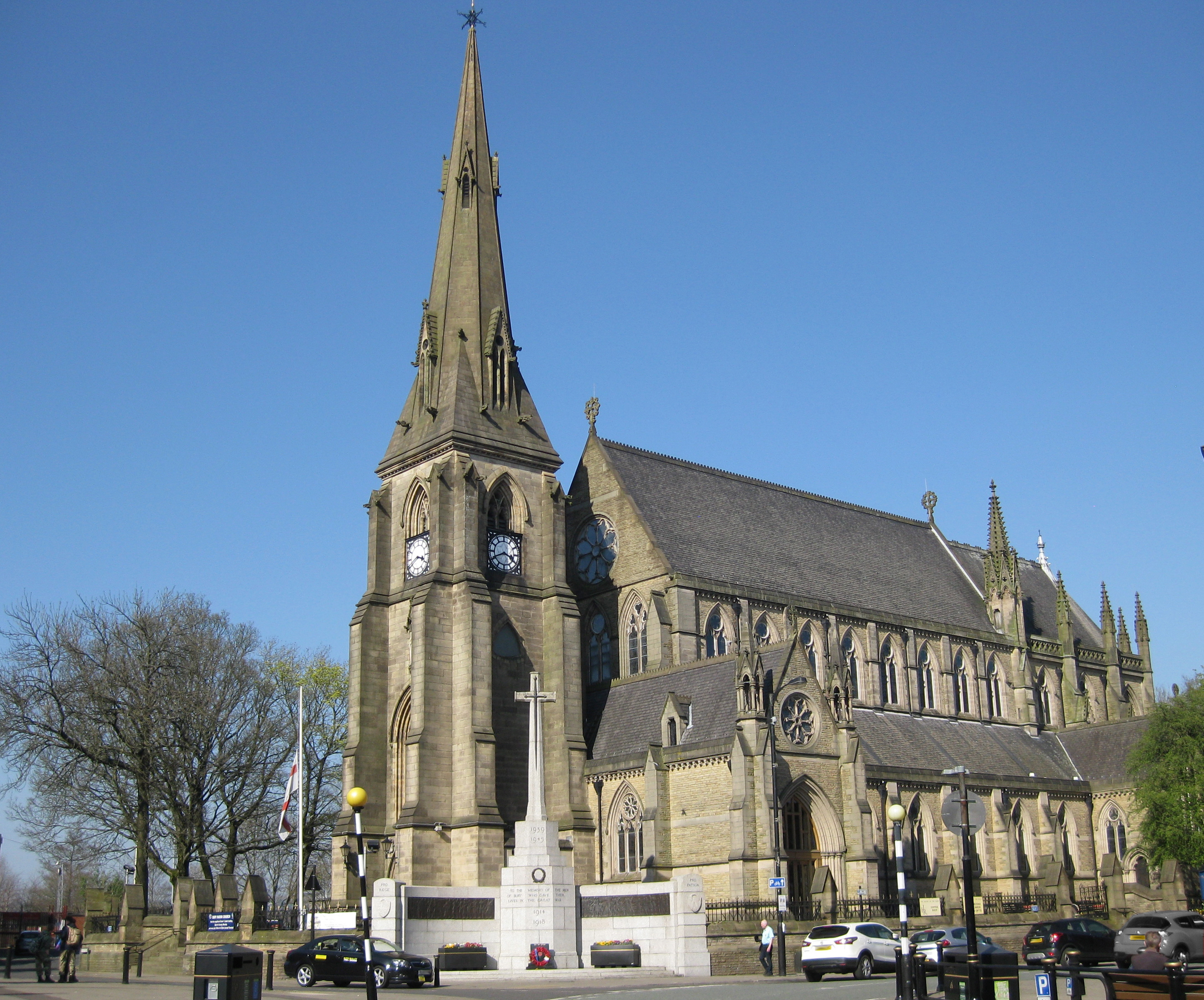 Church of St Mary the Virgin, The Rock, Bury. War memorial in front.